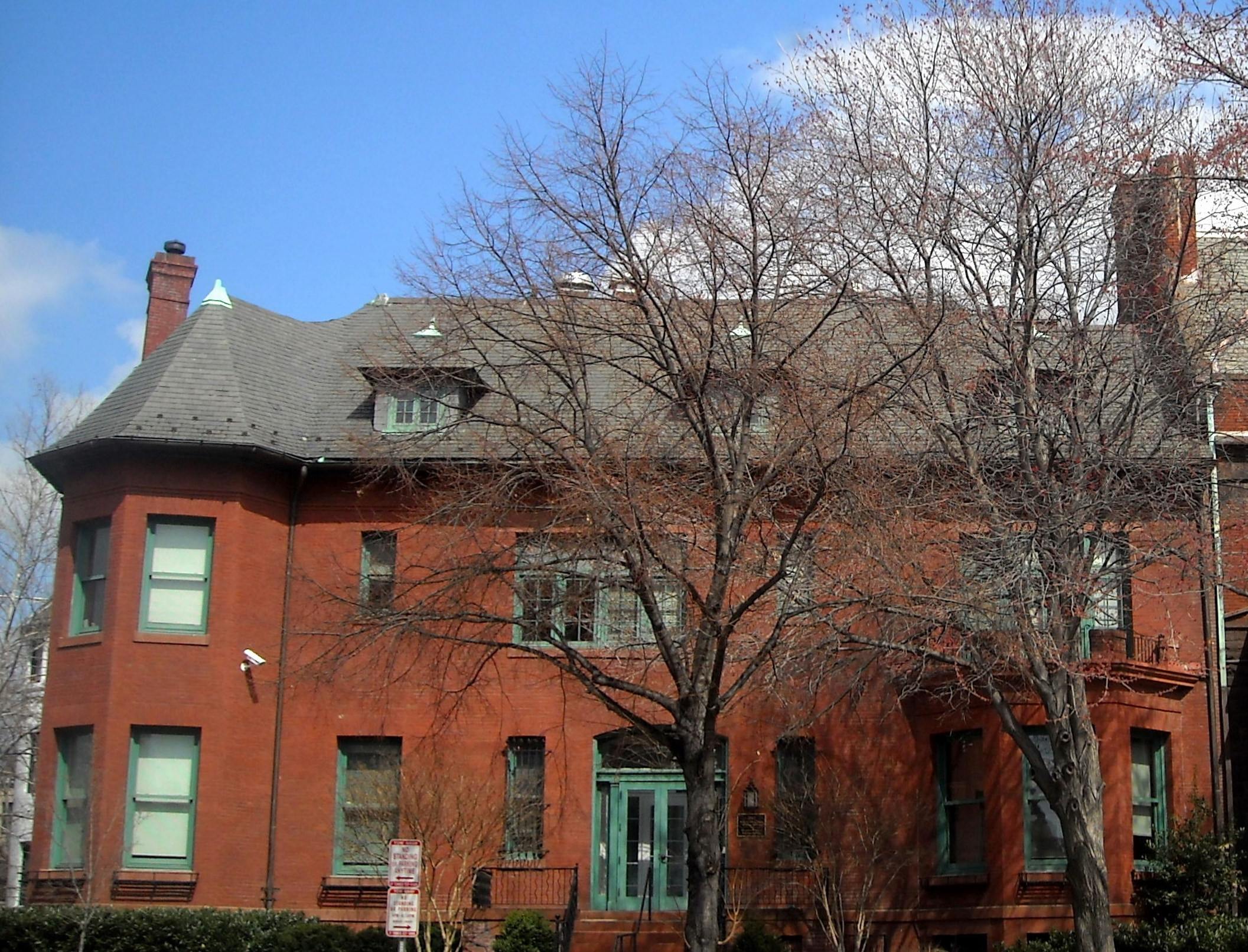 The Union for Reform Judaism Mid-Atlantic Council headquarters (also known as the Arthur and Sara Jo Kobacker Building or Religious Action Center of Reform Judaism; the building's history can be found here) located at 2027 Massachusetts Avenue, NW in the Dupont Circle neighborhood of Washington The building is a contributing property to the Massachusetts Avenue Historic District and Dupont Circle Historic District. Its 2009 property value is $3,458,880.